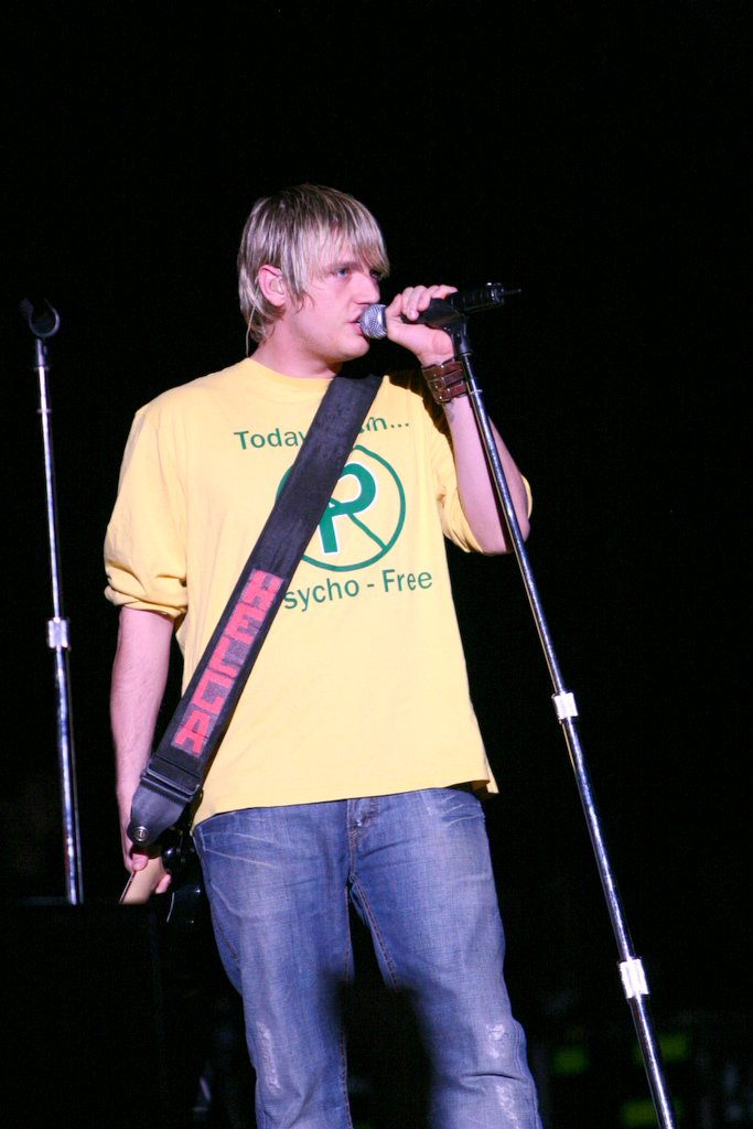 Nick Carter